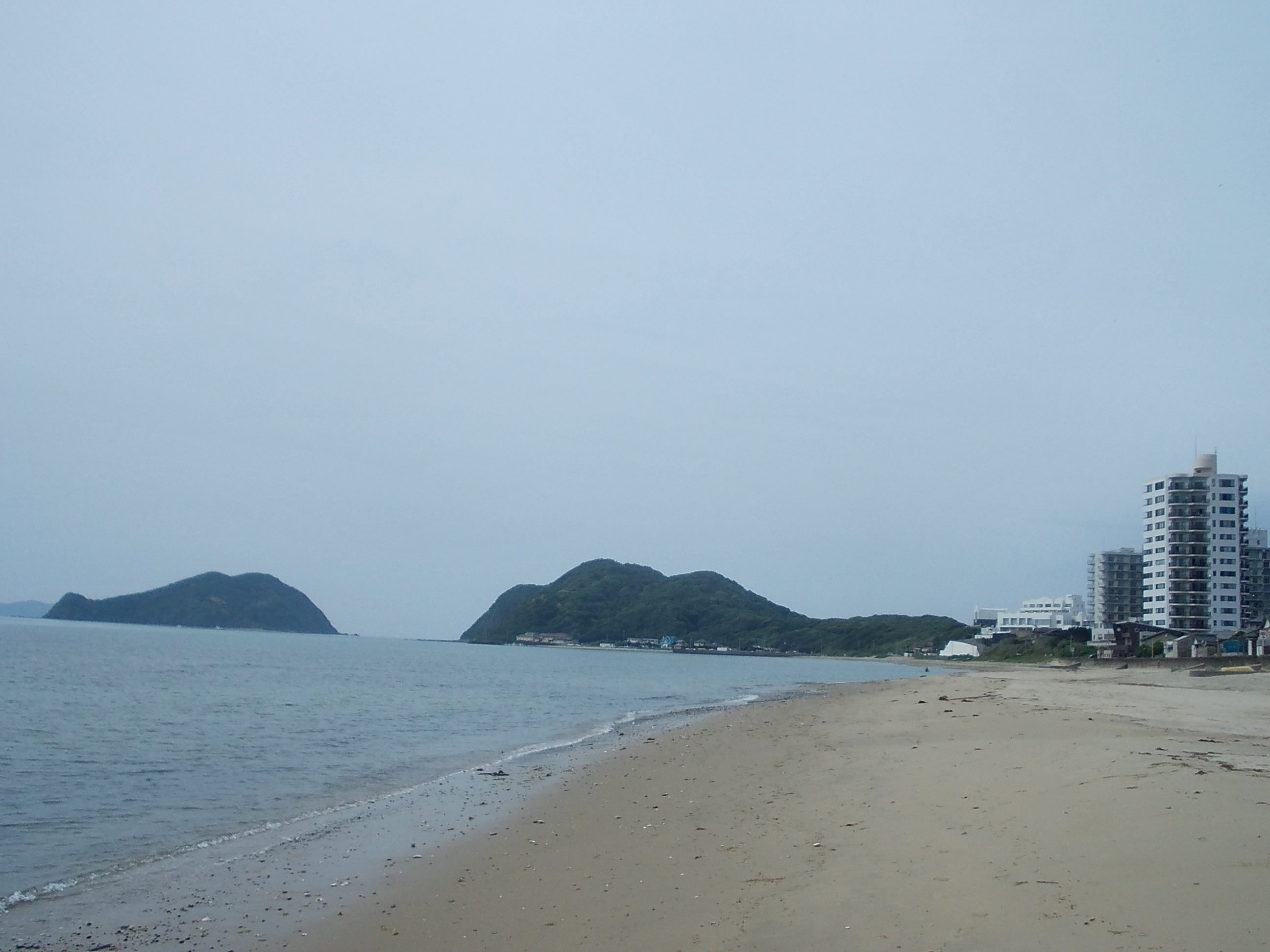 Katsuurahama Beach, Fukutsu, Fukuoka, Japan